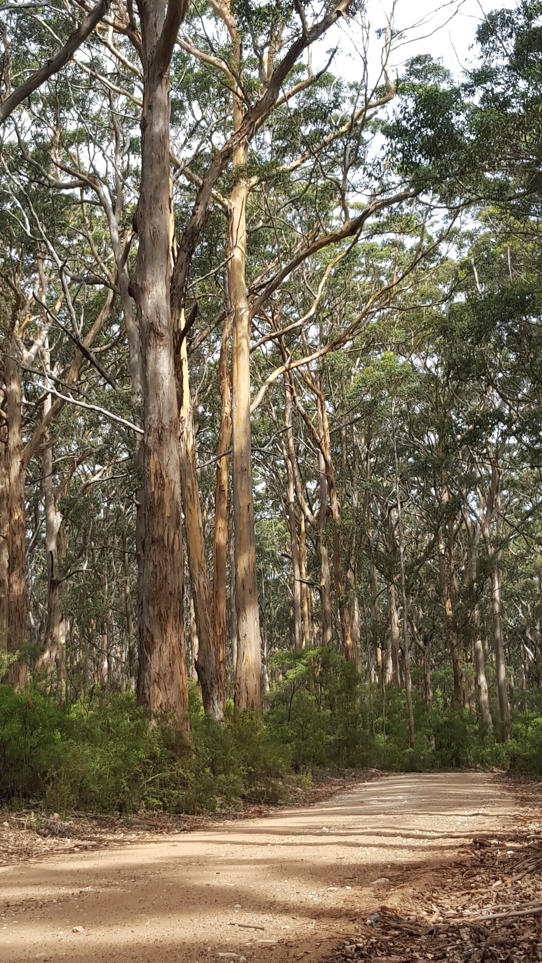 A glorious late summers day and the perfect spot for our picnic